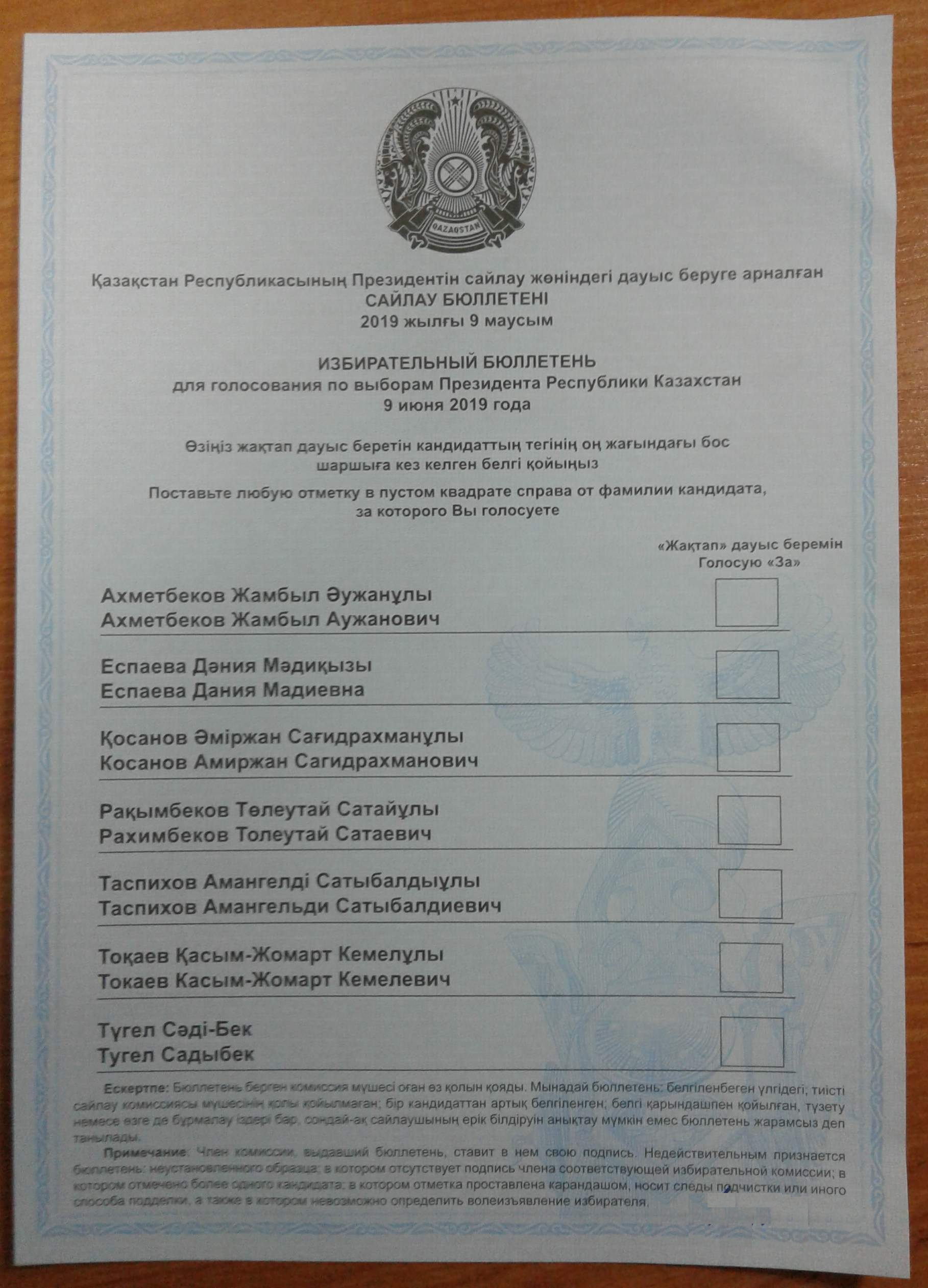 The voting ballot for 2019 Kazakhstan Presidential Election